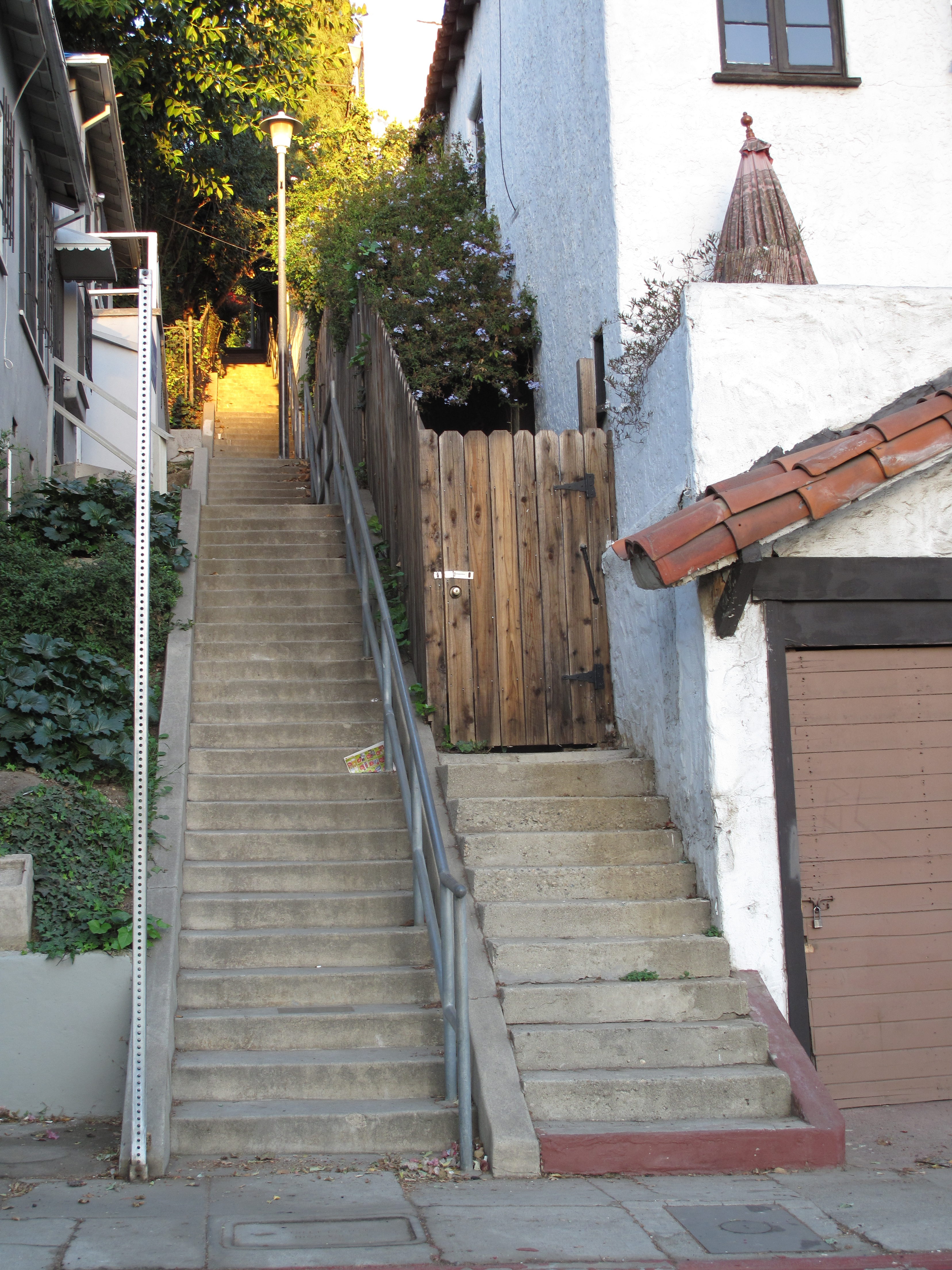 The steps featured in the 1932 Laurel and Hardy comedy short film, The Music Box, in the Silverlake neighborhood of Los Angeles, California. The steps face east, and the photo was taken shortly after sunrise so they would not be in complete shadow.